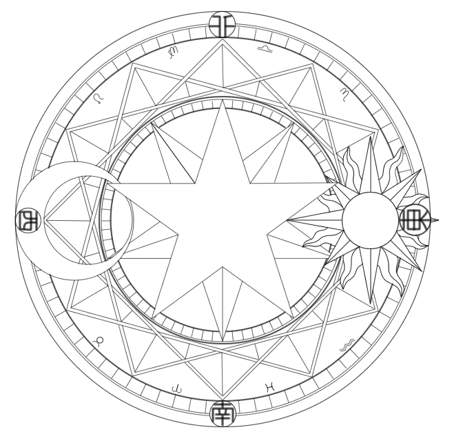 The magic circle as it show from the Sakura's powers.